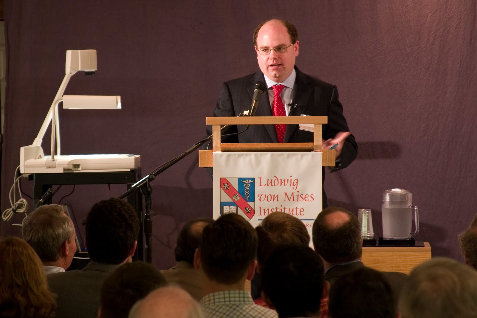 This updated image of Robert P. Murphy has been by the Mises Institute under the Creative Commons Attribution 3.0 license.